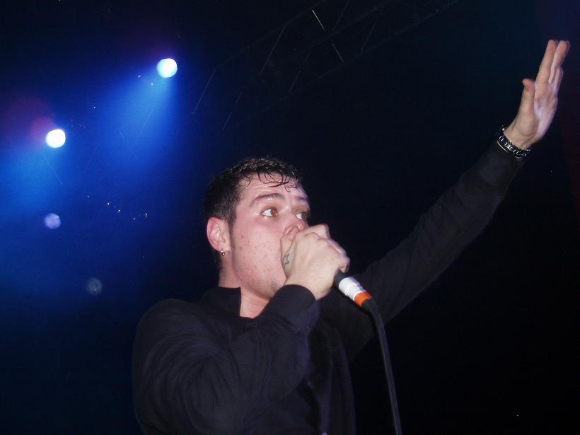 Matt Willis, live in London